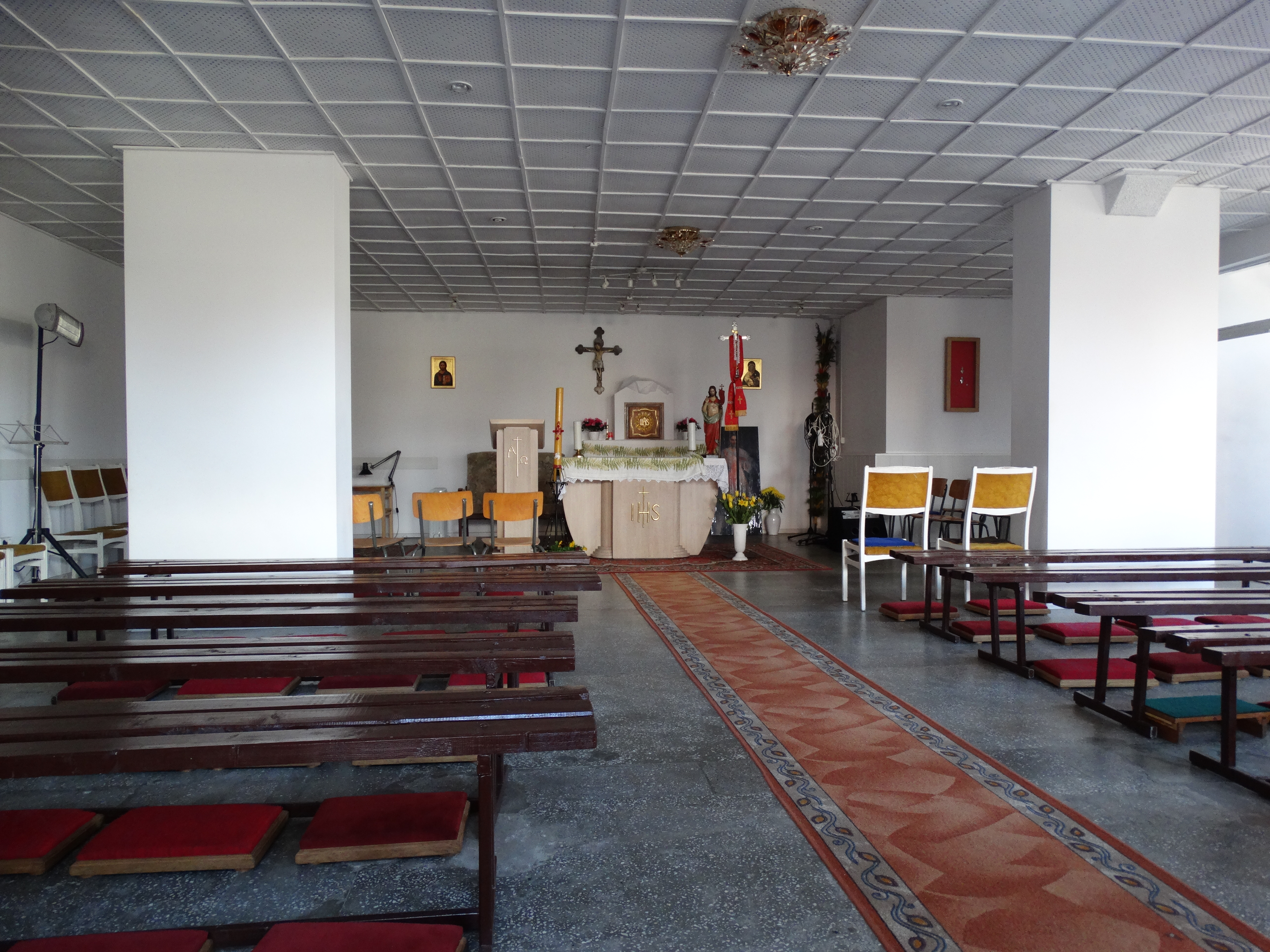 Chapel, Rukla, Jonava district, Lithuania